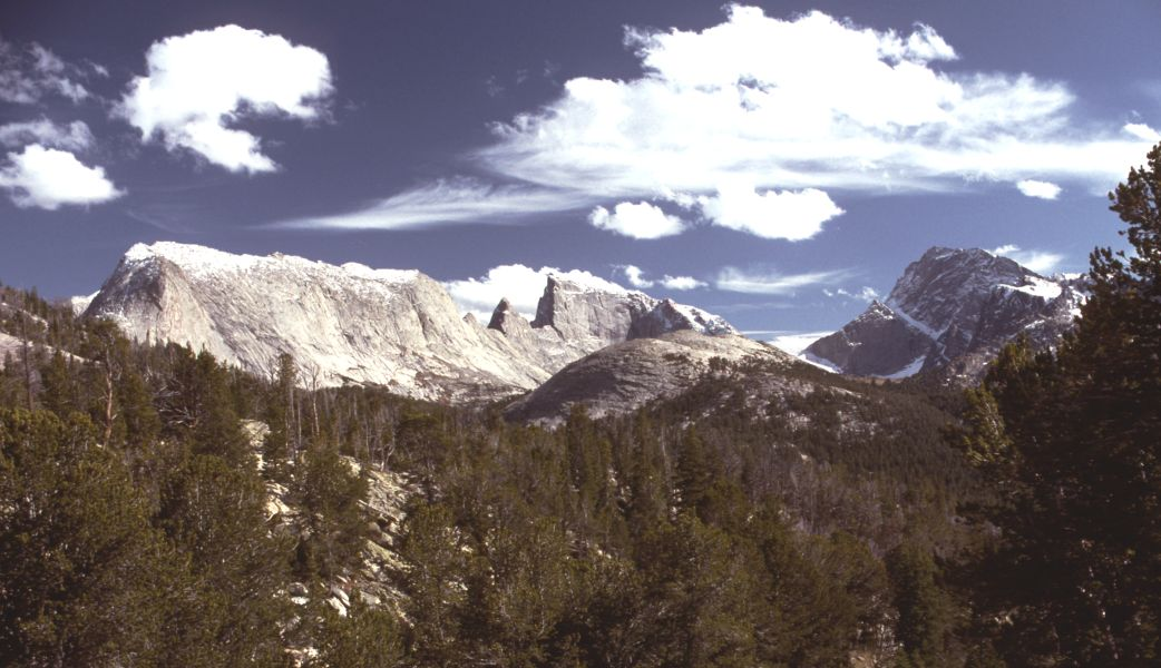 Mountains in the Wind River Range, Wyoming